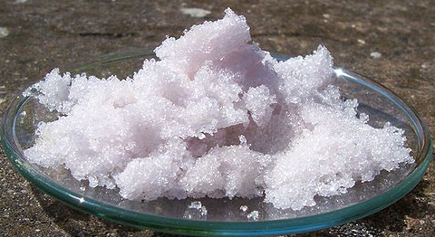 Own work. Photo of ferric nitrate nonahydrate, demonstrating its very light violet colour.